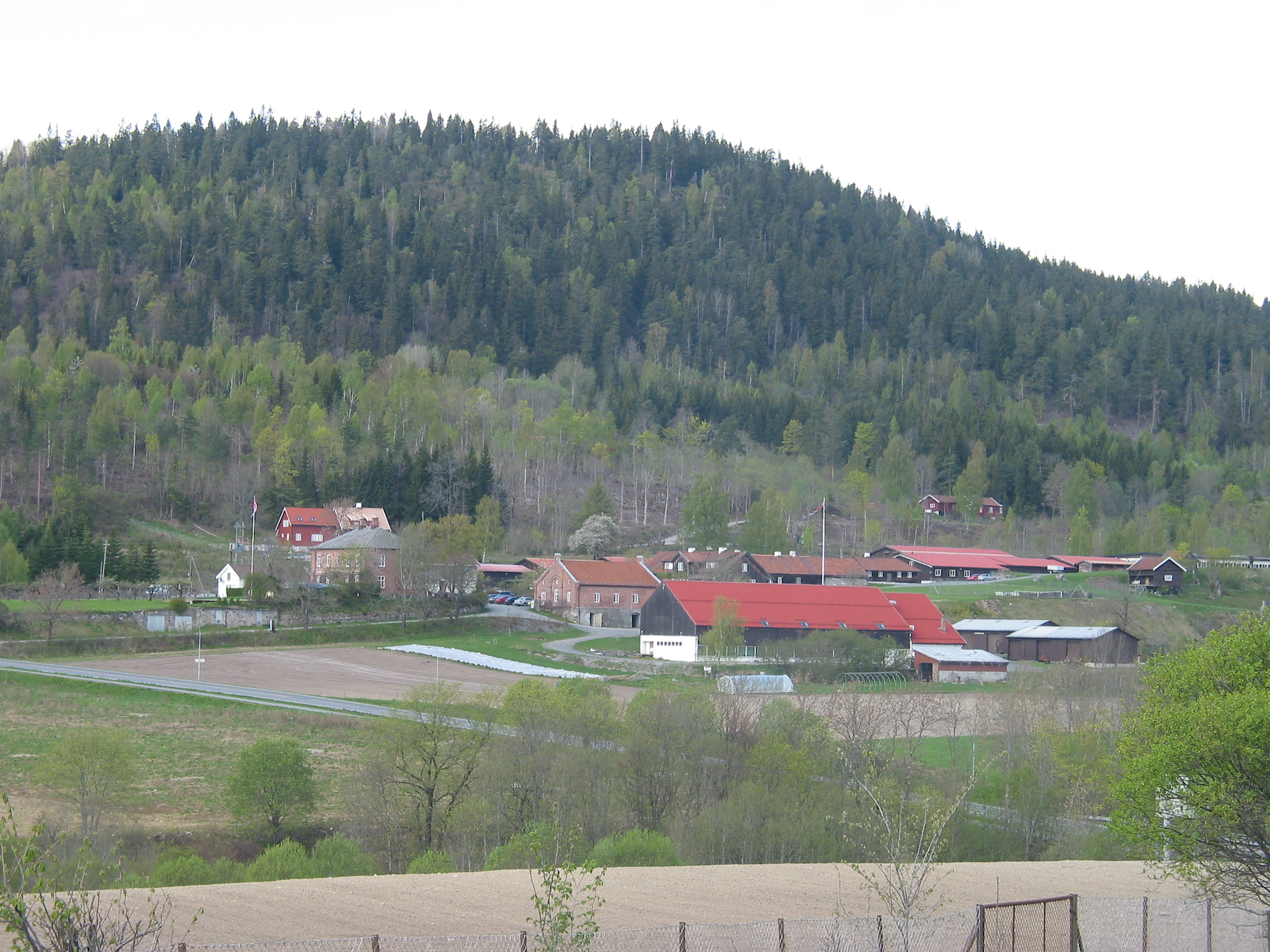 View of Øverland farm, from Haslum.